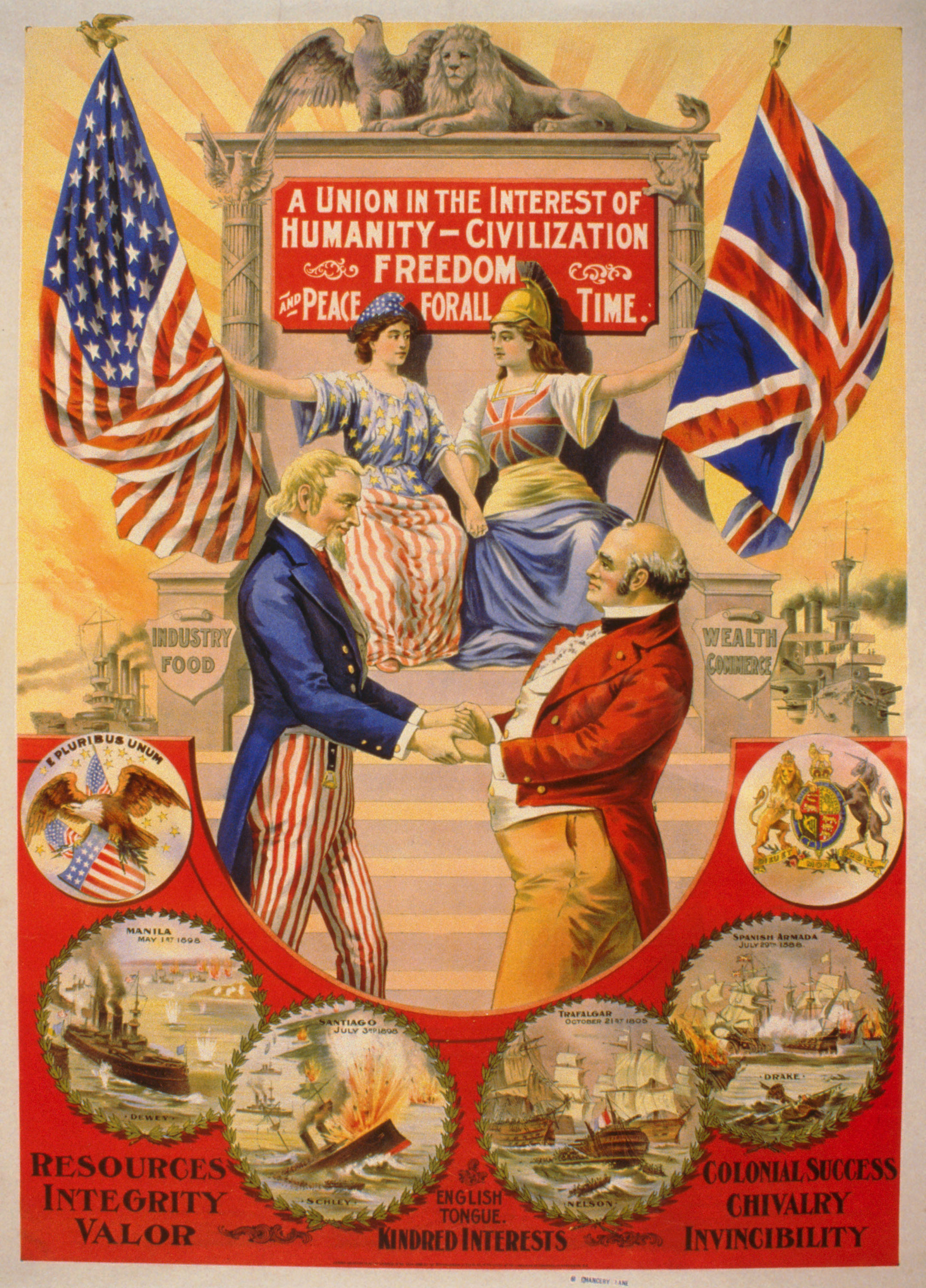 This poster was used for the promotion of the United States and Great Britain Industrial Exposition in the late 19th century (1899-1900). Shows Columbia and Britannia in the background holding flags (under the eagle and lion), and Uncle Sam and John Bull in the foreground clasping hands. Text A Union in the Interest of Humanity--Civilization --Freedom-- and Peace for all Time Industry Wealth Food Commerce Resources Integrity Valor English Tongue Kindred Interests Colonial Success Chivalry Invincibility In the roundels near the bottom, the recent American naval victories of Manila and Santiago de Cuba are compared to the classic British/English naval victories of Trafalgar and the Spanish Armada. The Union Jack shown at upper right has some of the flaws described at File:Incorrect flag of UK.svg...